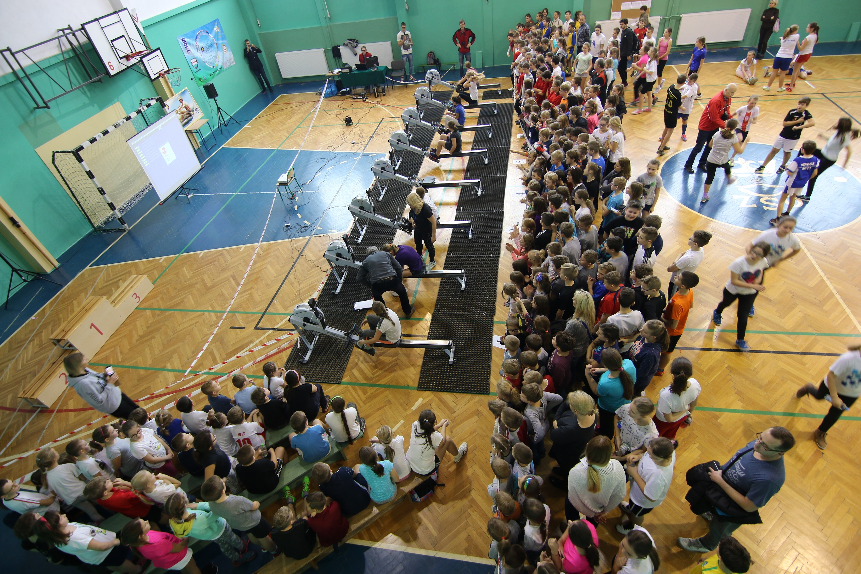 Annual competition organized by the Polonia Rowing Club, co-financed by the City of Poznań under the name "Ergometer for all". The main organizer of the competition is Grzegorz Nowak.